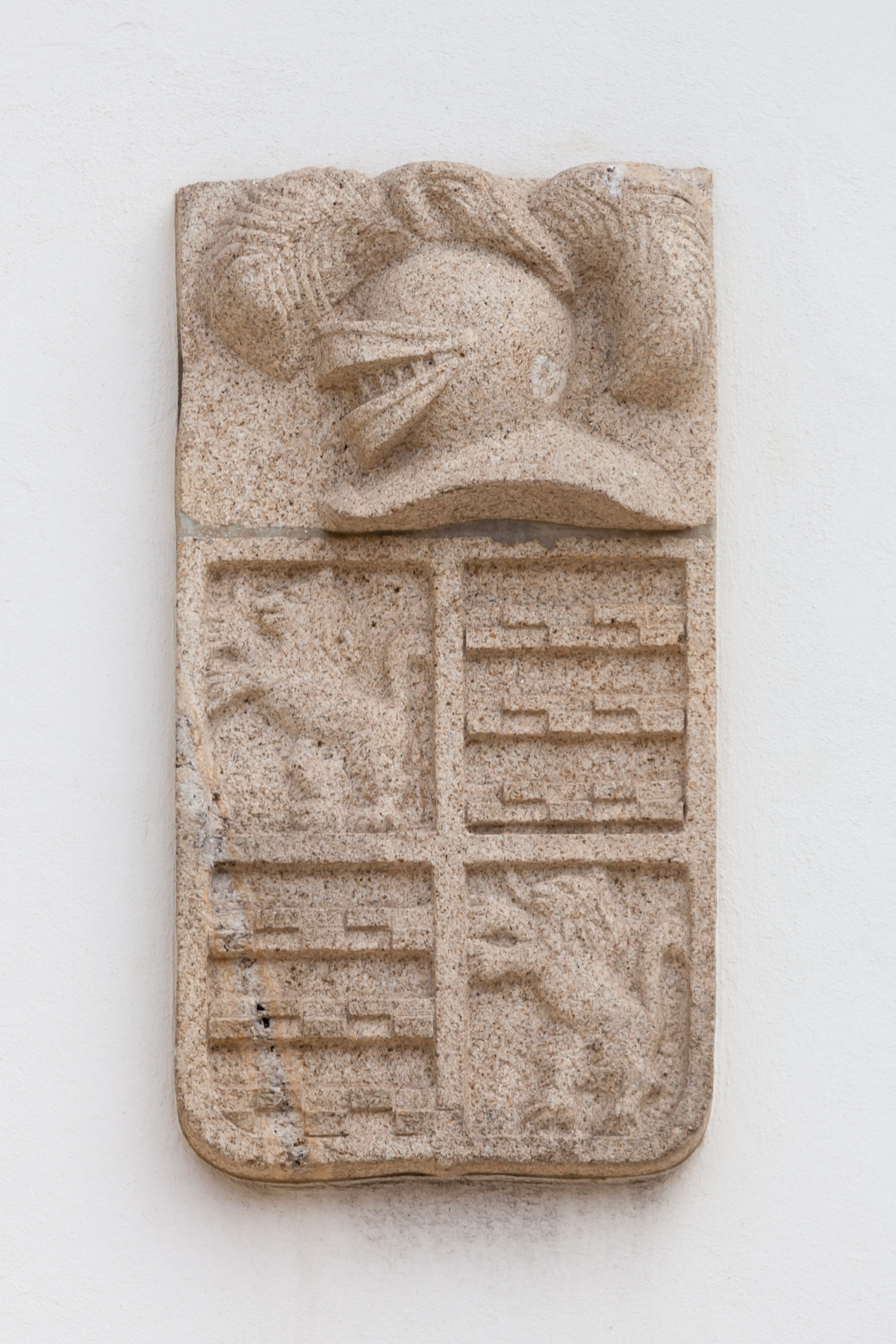 Coat of arms in A Guarda, Galicia (Spain)